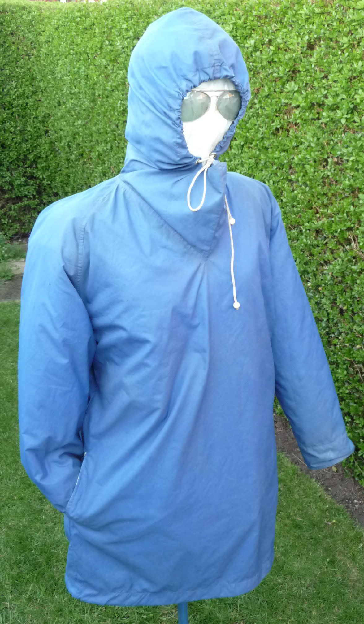 Peter Storm vintage cagoule showing side-slit access to under garments and high storm closure to hood. Sleeves were over-long with storm double-cuffs having an inner, elasticated bellows